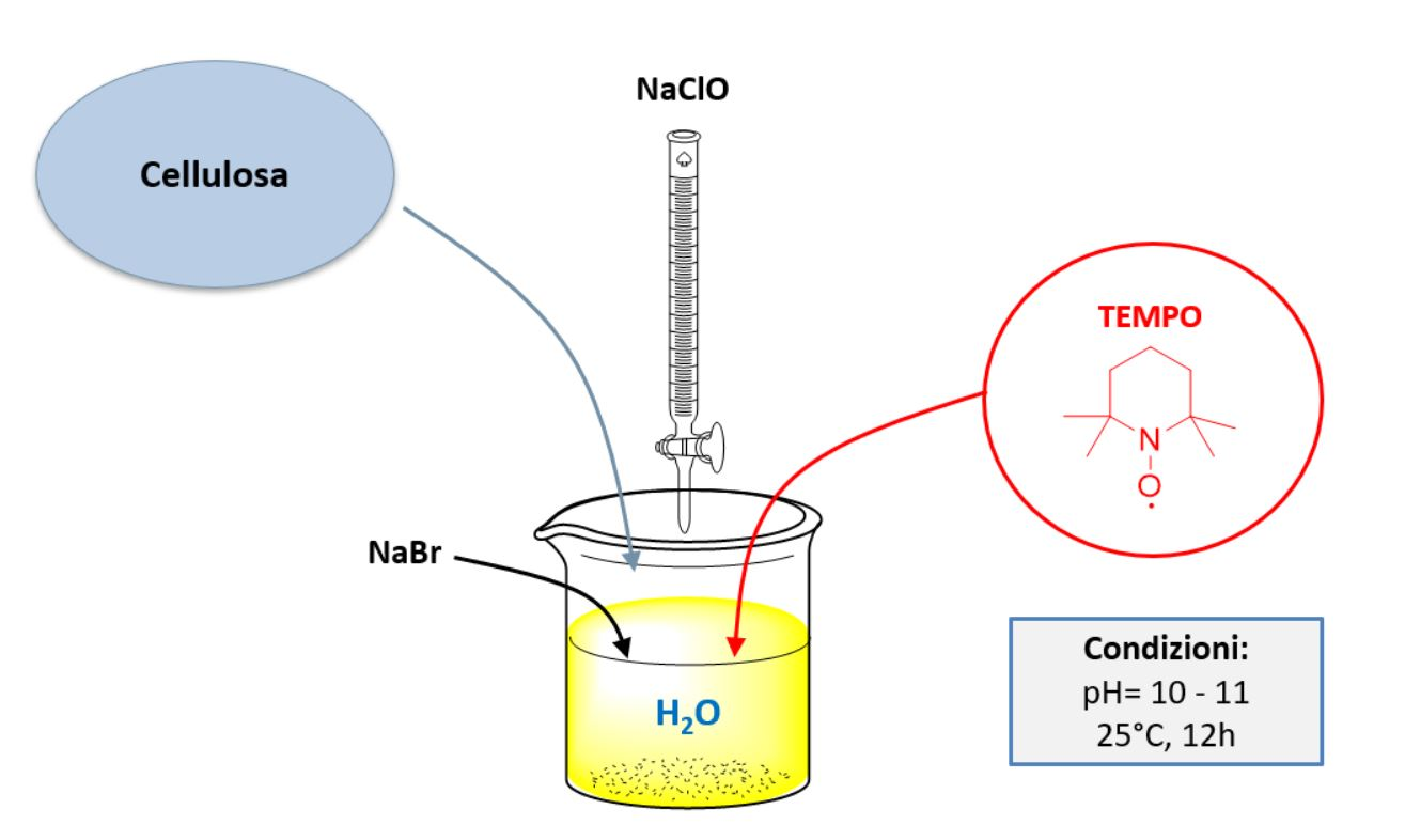 Reaction conditions of TEMPO-mediated oxidation